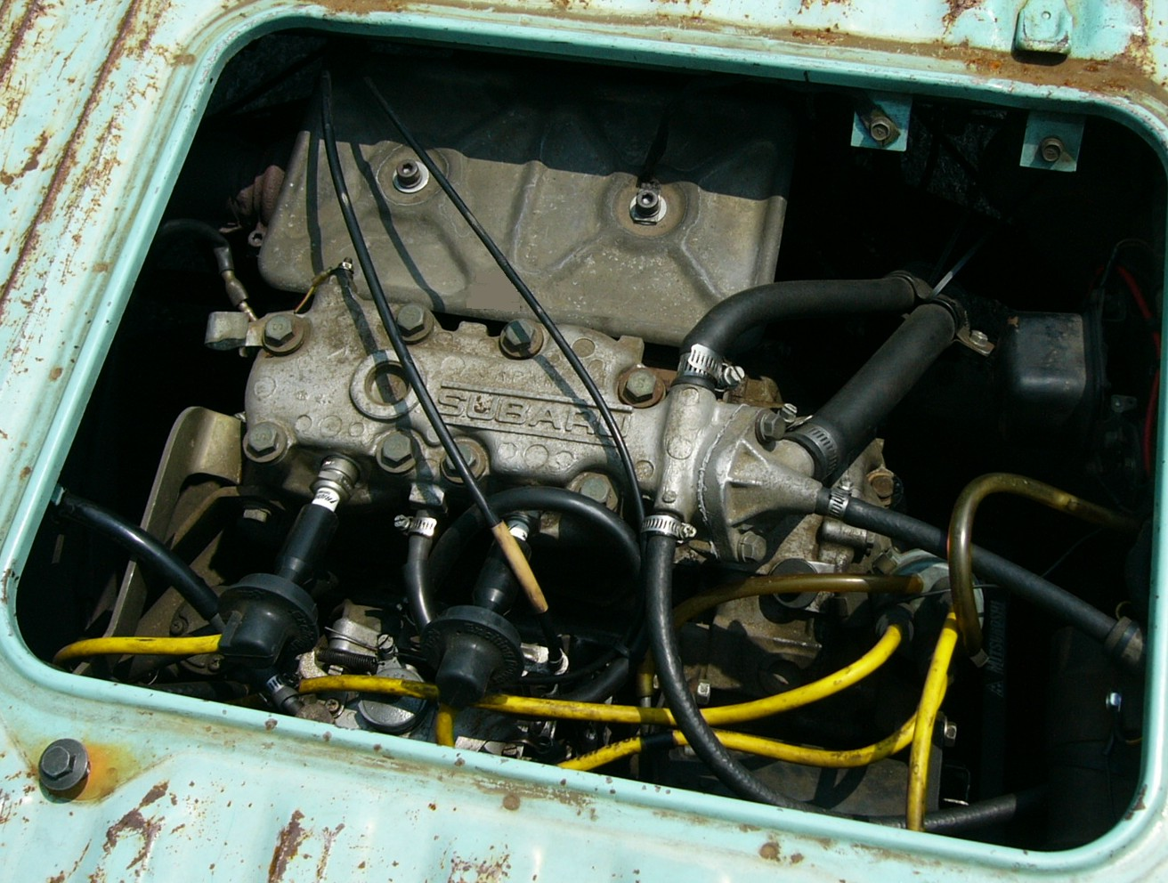 EK34 356cc engine is mounted on a 3rd generation Subaru Sambar truck.